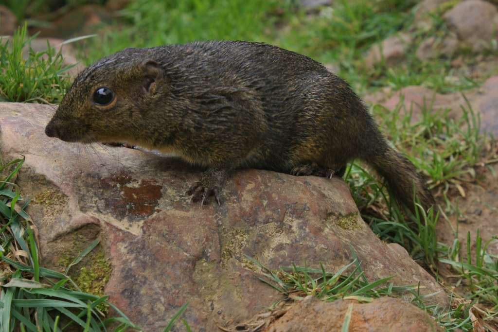 Very obliging photo subjects, these were very common along the climb up Mount Kinabalu.